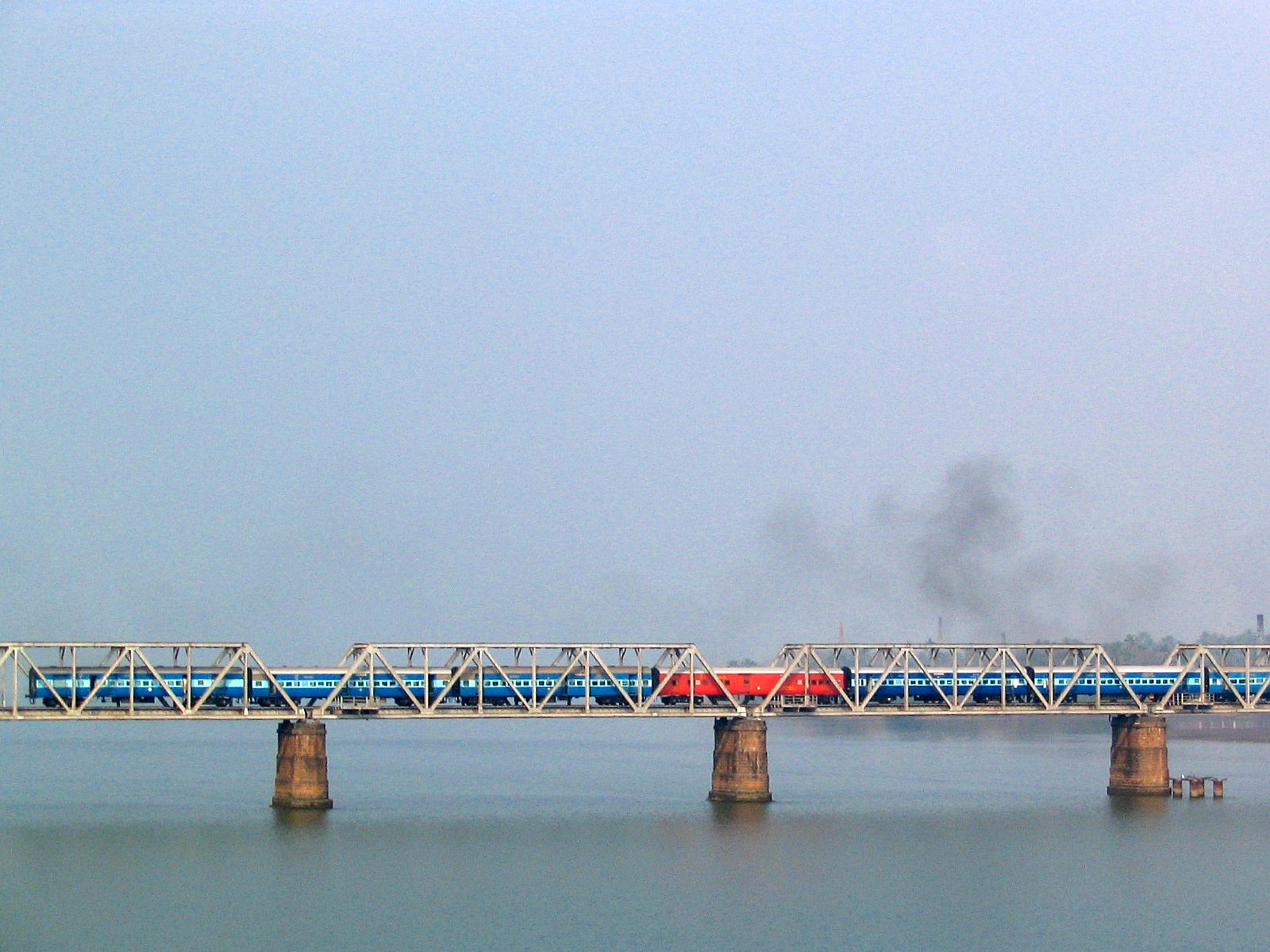 This shot was taken in Mangalore, Karnataka, India. I was driving and saw this and had to click... was a little overcast... the sun was yet to come out... so used picasa to enhance the image a bit... Quality wise not the best... but picture wise i like it a lot... :) Better Viewed LARGE